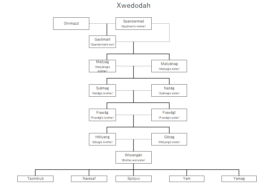 Xwedodah